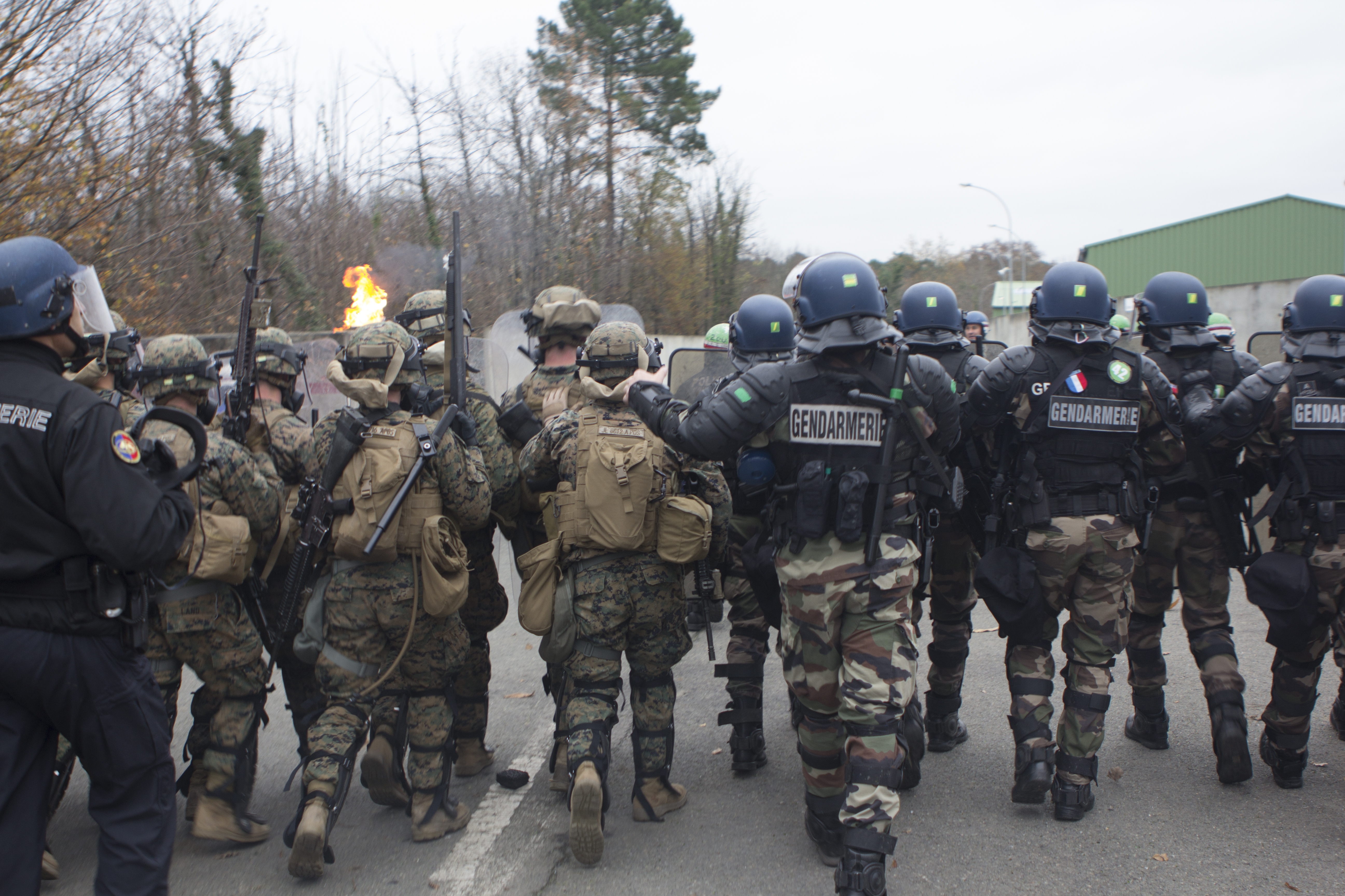 U.S. Marines with SPMAGTF Crisis Response – Africa and French gendarmes with Mobile Gendarmeries Armored Group work together to control a mock riot caused by role-players, while training in crowd and riot control techniques at the National Gendarmerie Training Center in St. Astier, France, Dec. 2, 2014. The exercise allowed the Marines to gain greater knowledge of non-lethal tactics, techniques and procedures while enhancing interoperability with the French Gendarmerie and strengthening the U.S. partnership with France. (U.S. Marine Corps photo by Cpl Jeraco Jenkins/Released)